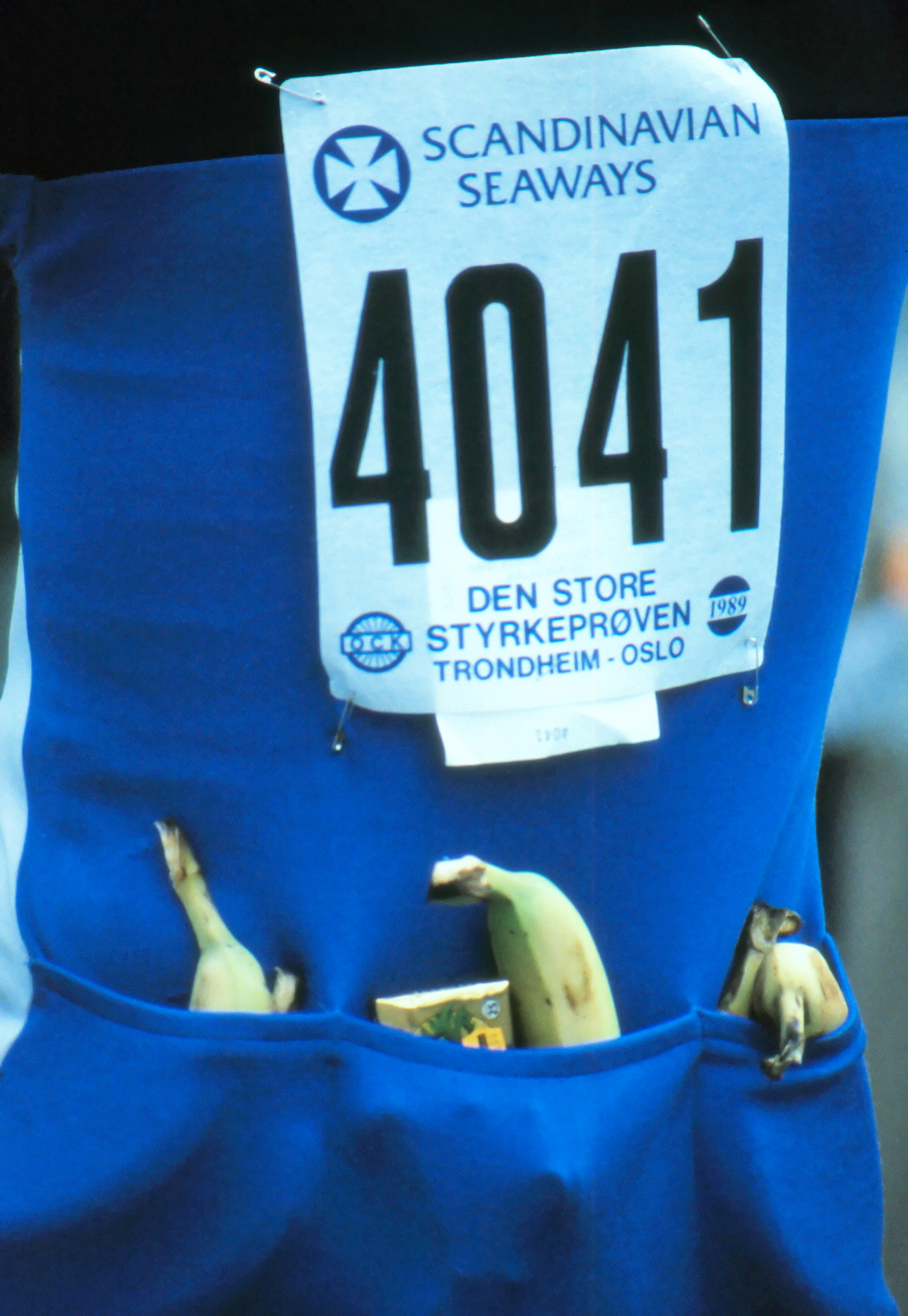 Styrkeprøven - Trondheim, Norway - June 24, 1989